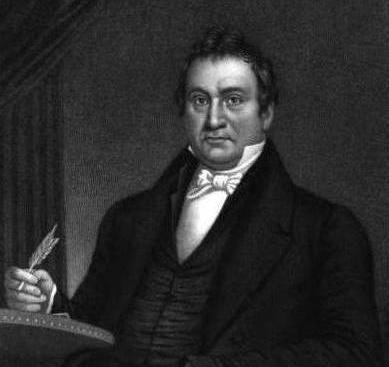 Luther Badger, Member of Congress from New York, Volume I, Number I (December, 1852) of "Monthly Biographical Magazine"